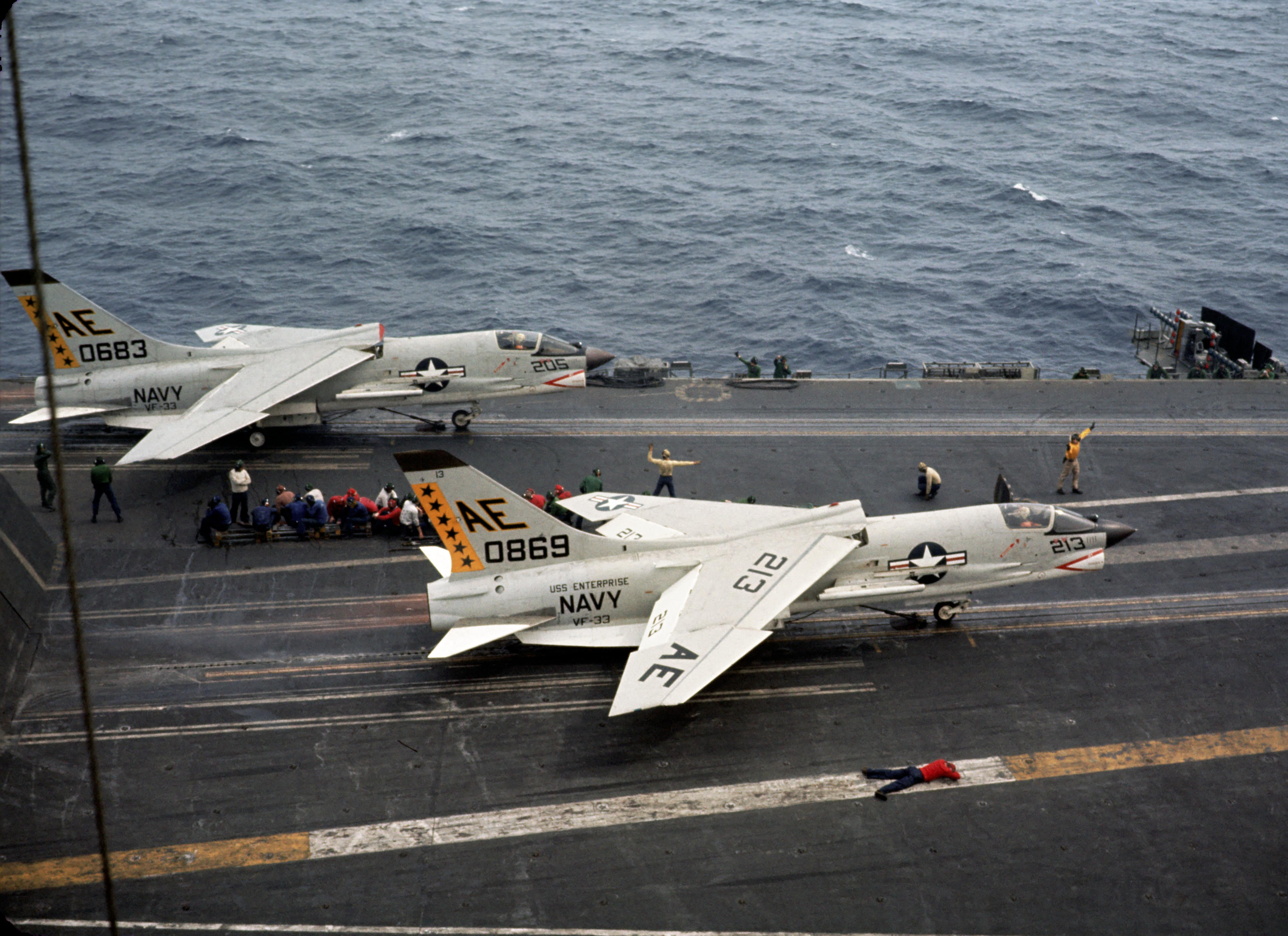 Two U.S. Navy Vought F-8E Crusader fighters from fighter squadron VF-33 Tarsiers prepare for a launch in afterburner from the waist catapults of the aircraft carrier USS Enterprise (CVAN-65) in 1964. VF-33 was assigned to Attack Carrier Air Wing 6 (CVW-6) for the "Operation Sea Orbit" around the world cruise from 8 February to 3 October 1964.